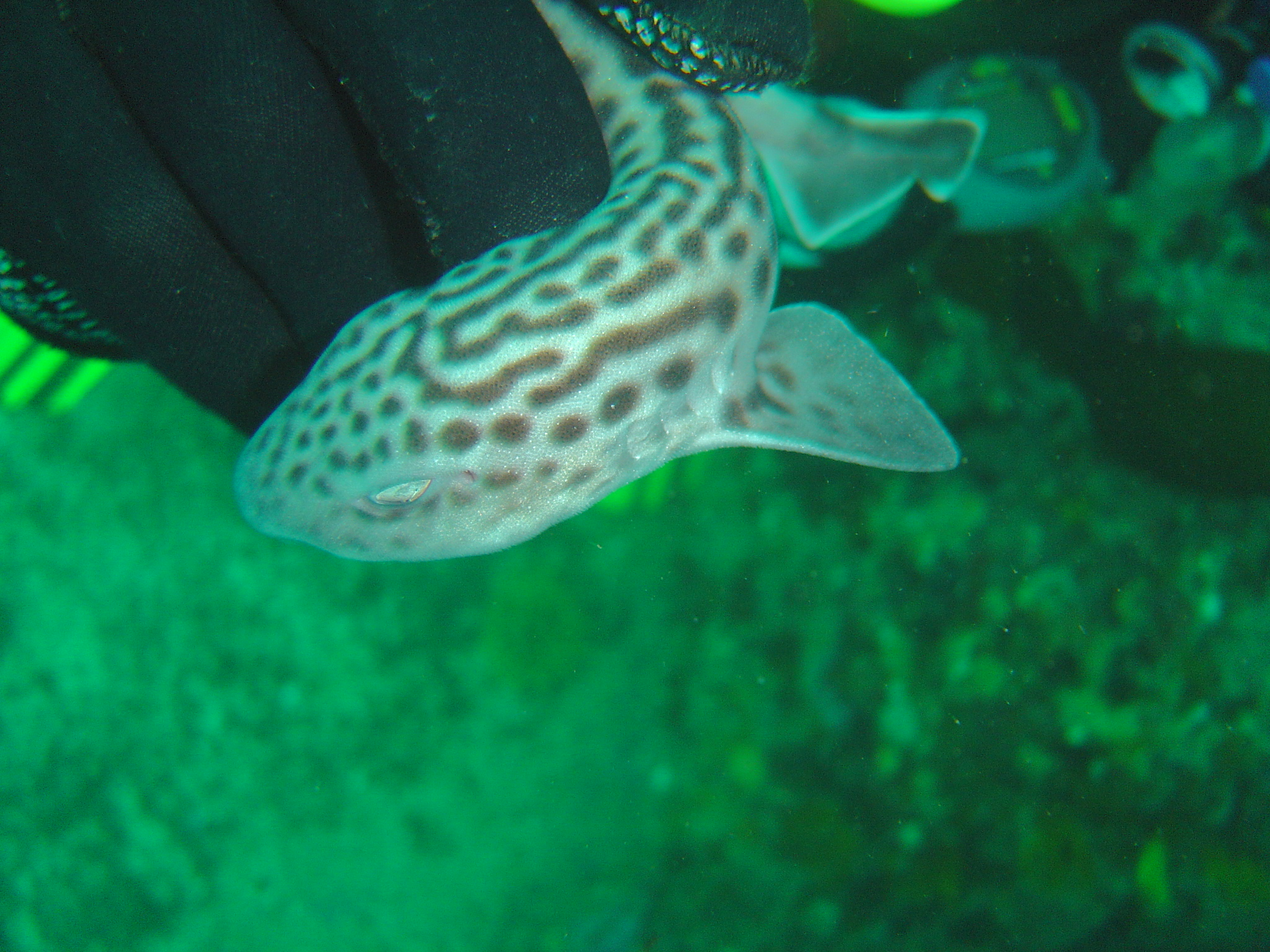 Small Leopard Catshark (Poroderma pantherinum) at dive site Pie Reef, Simon's Town